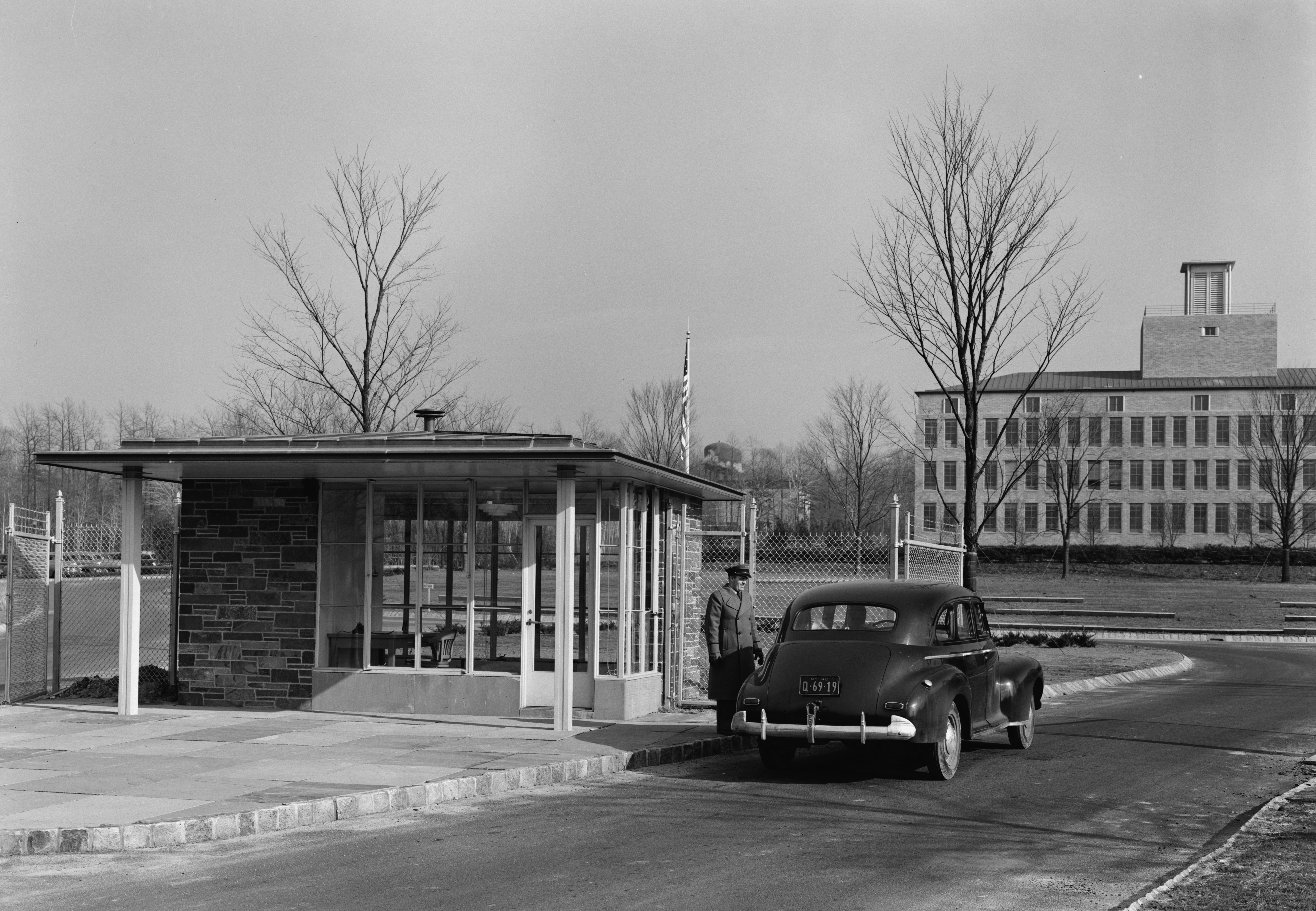 Bell Telephone Laboratory, Murray Hill, New Jersey. Control house